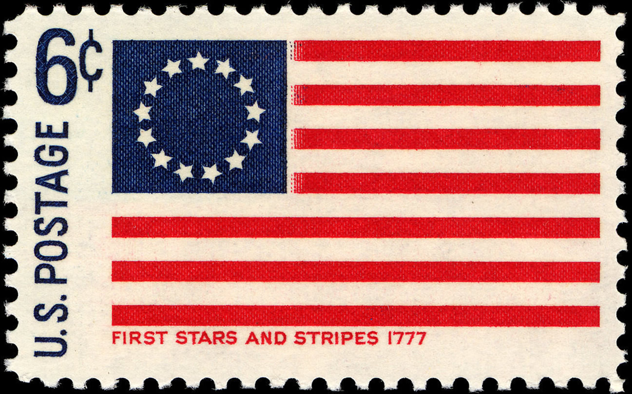 First Stars and Stripes Flag - Historic Flag Series - 6-cent 1968 issue U.S. stamp.